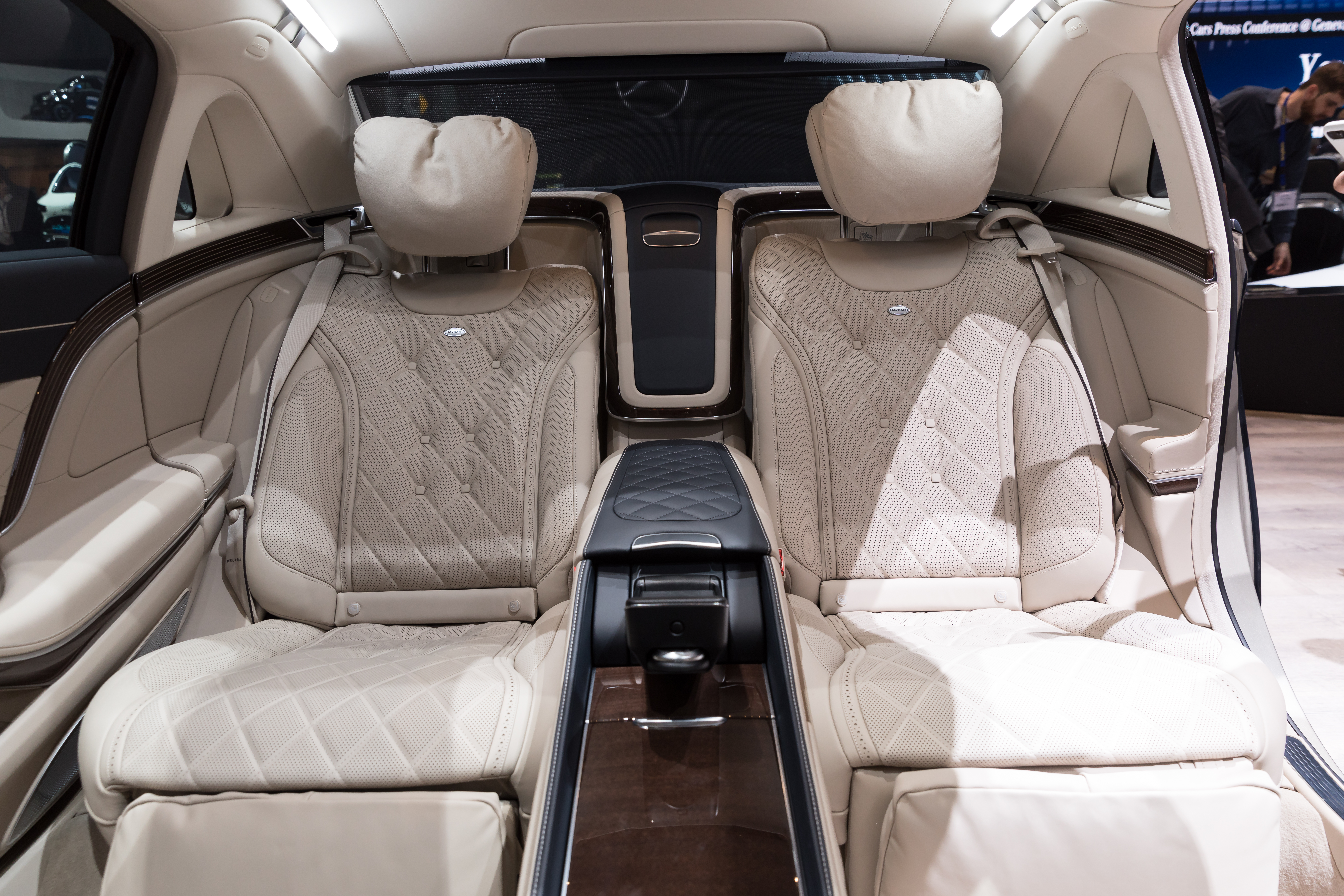 Geneva International Motor Show 2018